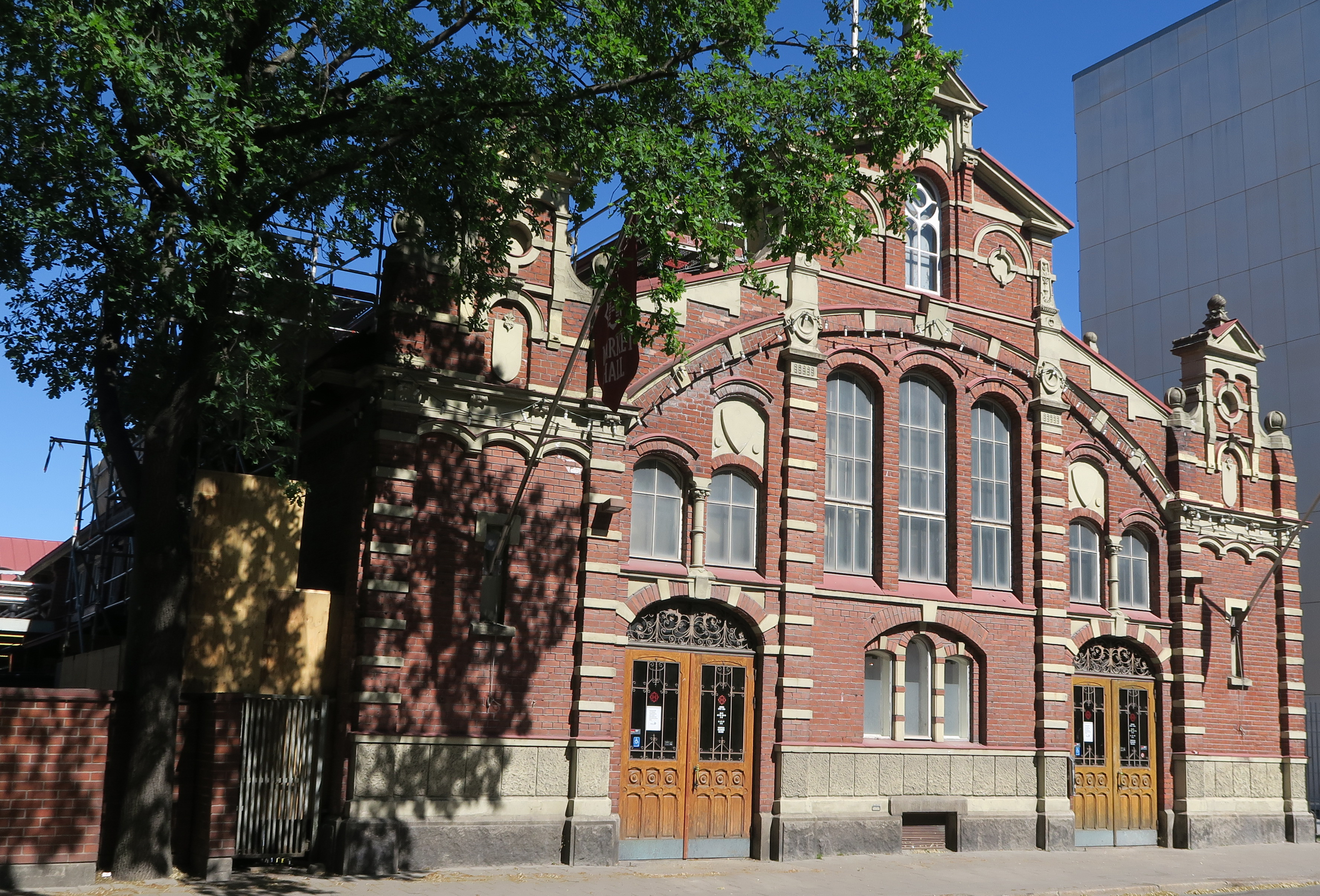 Turku Market Hall 2018. View from Linnankatu.